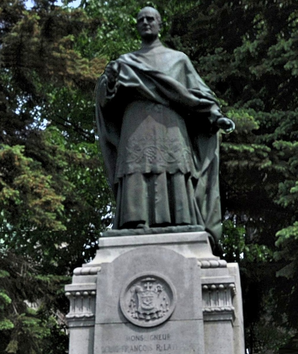 This statue of Louis-François Richer Laflèche is in Rue Bonaventure beside the cathedral and in front of the Bishop's Palace. He was Bishop of Trois-Rivières from 1866 until his death at the age of 79 in 1898. Quebec, Canada.